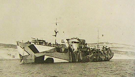 Deutscher Minenleger Ulm mit Tarnung nach Umwandlung (Umstrich) in Helsingör/ Seeland (DK) Anm. d. Verf.: Deutlich zu sehen ist das 10,5 cm Geschütz am Bug